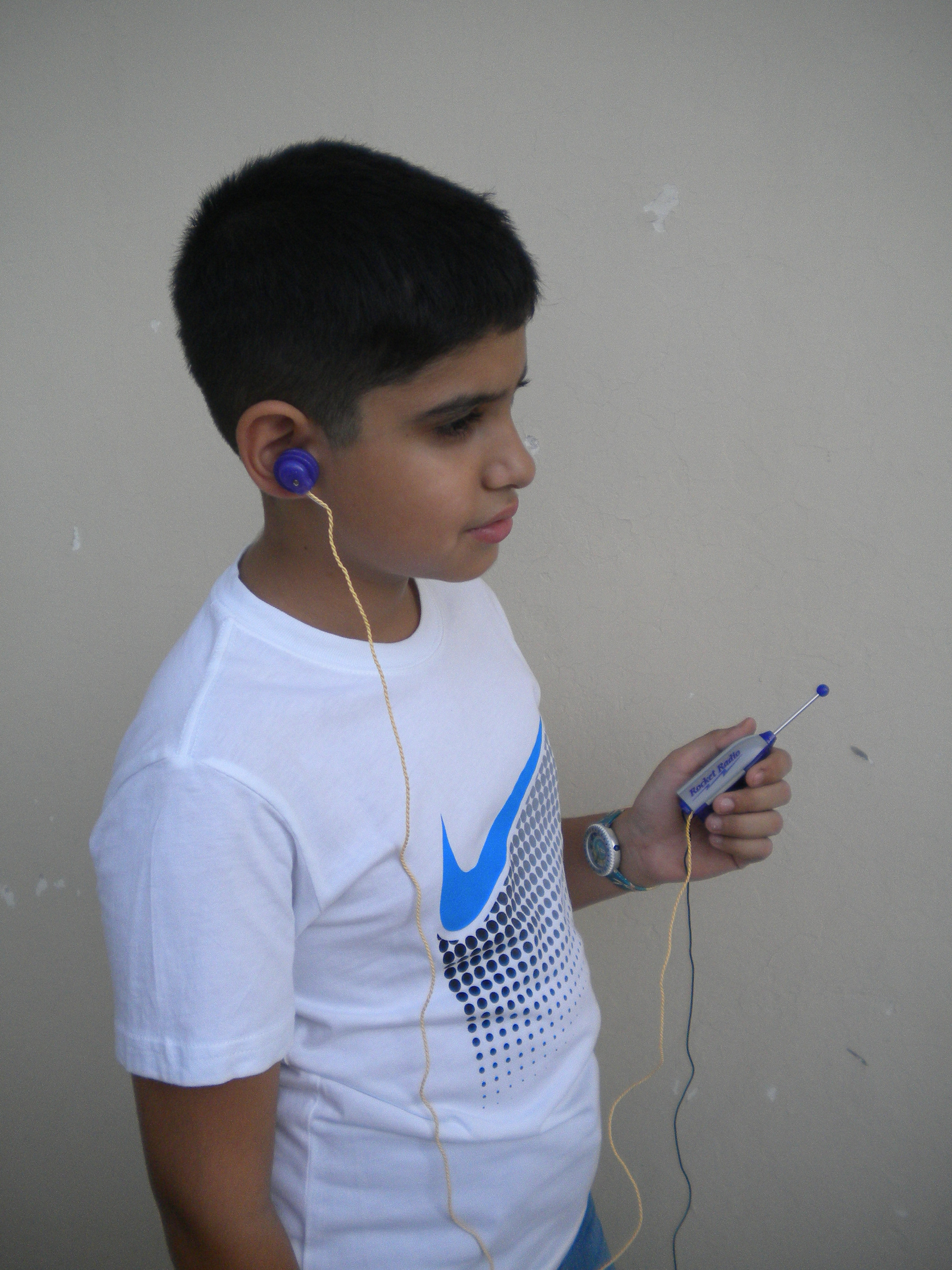 A crystal radio enthusiast. The boy is listening to a crystal radio, a simple radio that gets its power from the radio waves it receives, so it doesn't need a battery. The black wire hanging out of the radio is the antenna.